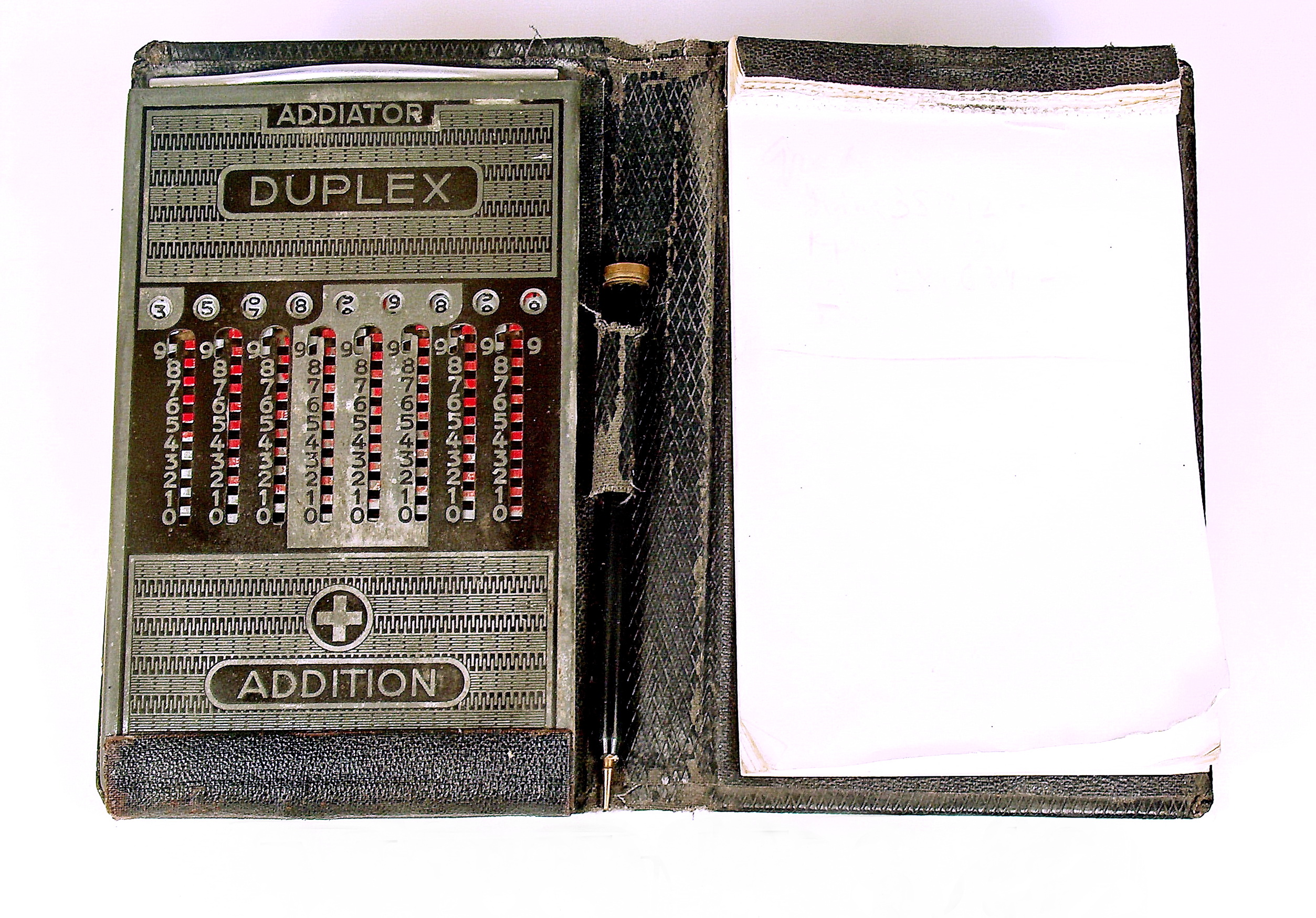 Addiator DUPLEX calculator, now located in Museum of Science and Technology Belgrade.